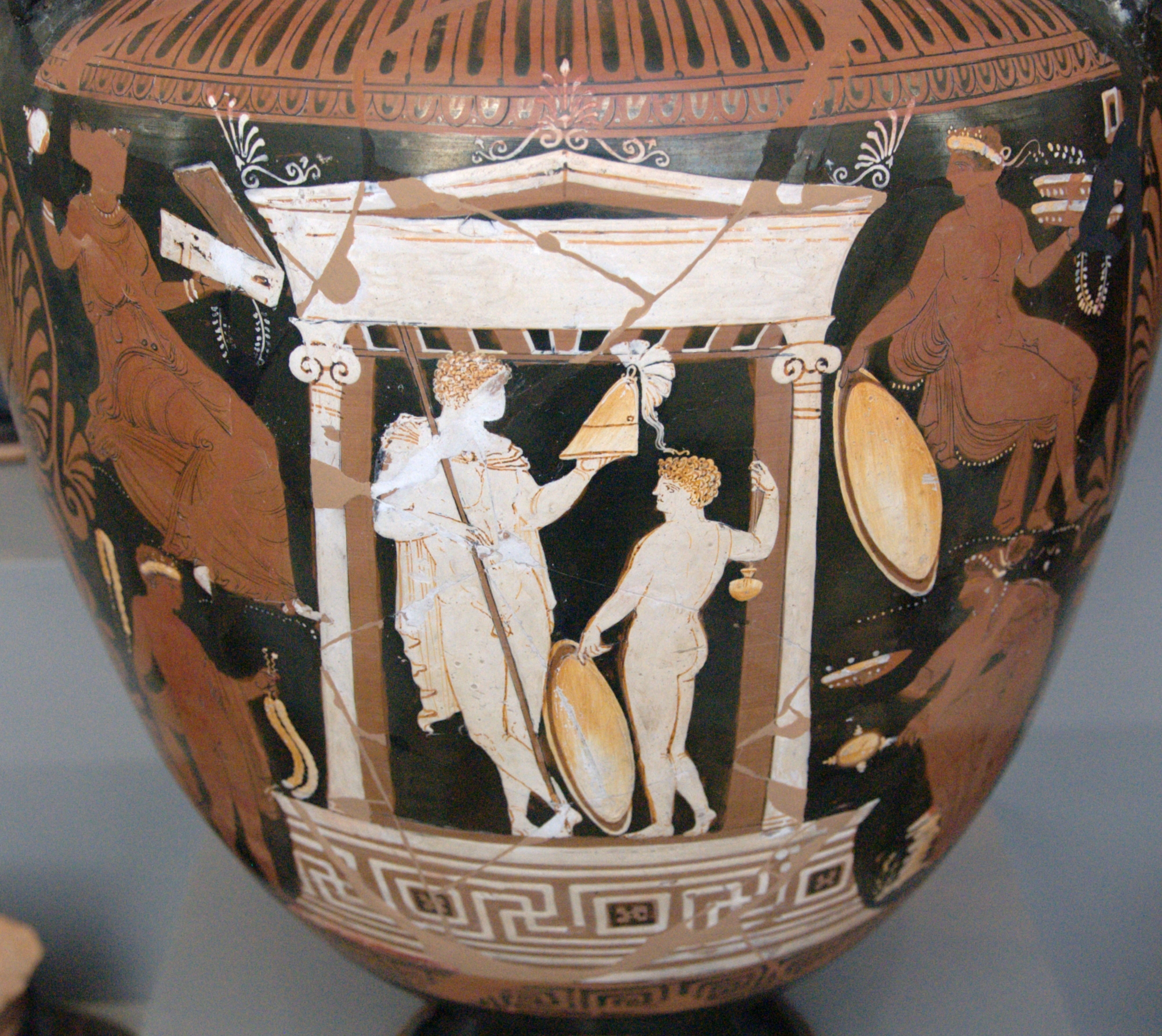 Naiskos. Side A of an Apulian red-figure volute-krater, ca. 340 BC.